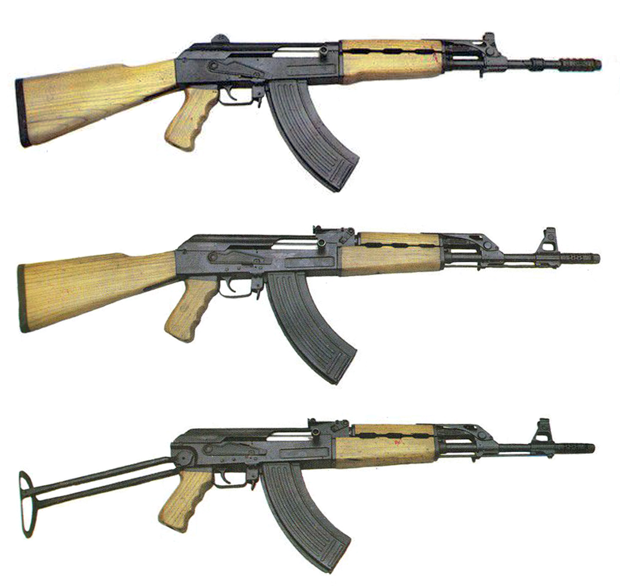 various Zastava M-64 prototypes